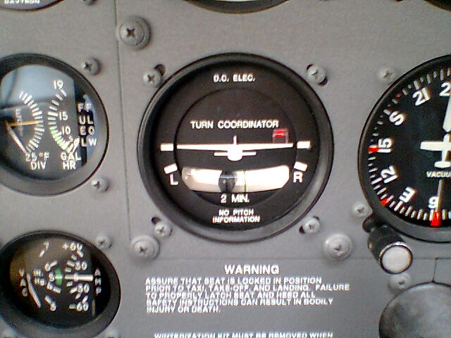 Turnindicator LN-AGT